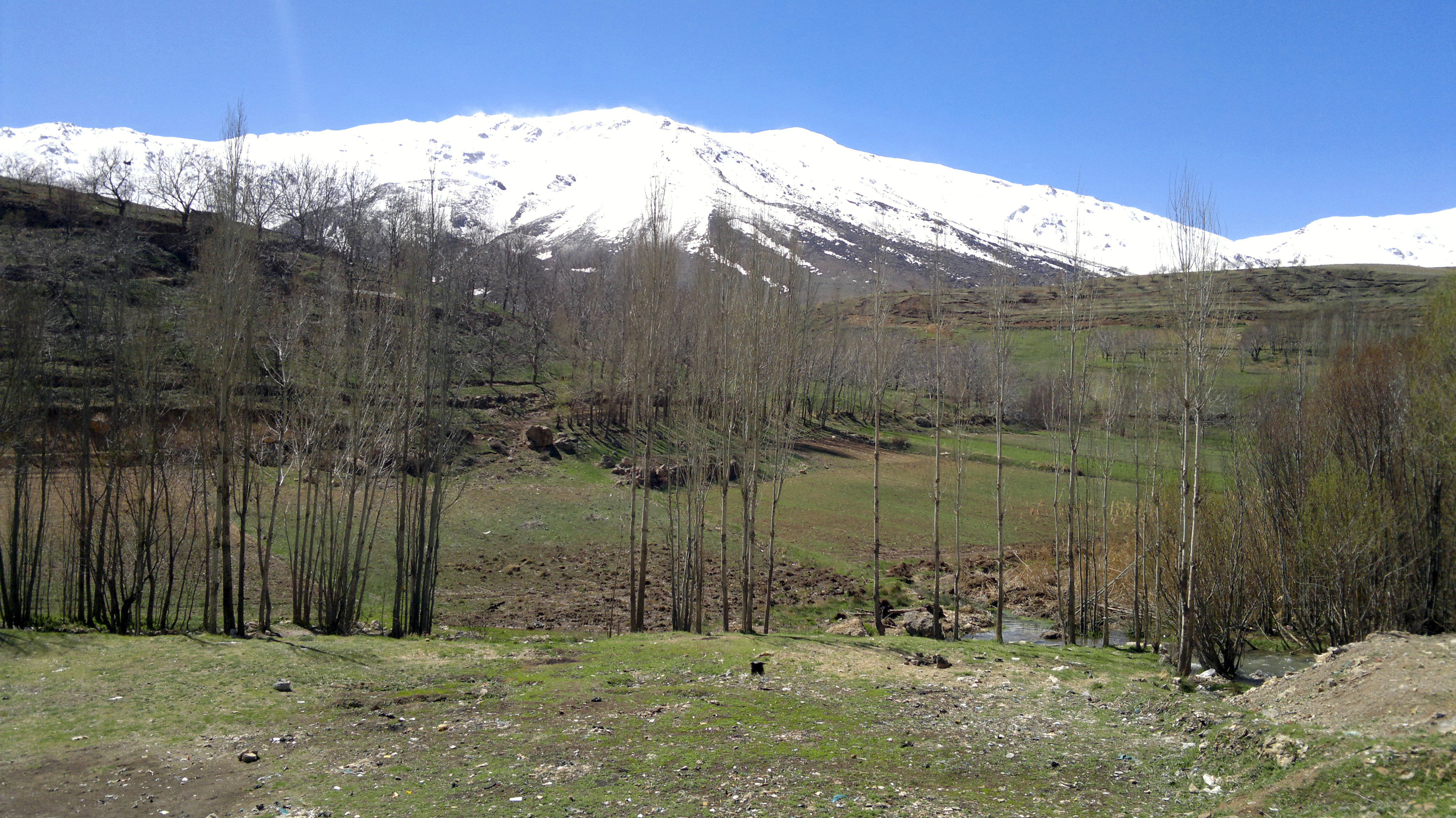 Mount Mishparvar (3500 m elevation) is located in Borujerd county, Iran. This is the northern view taken from Vennaei village.